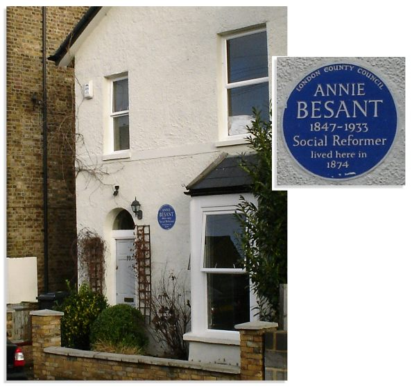 Plaque on house in Colby Road, London SE19 where Annie Besant lived in 1874. 39 Colby Road, Gipsy Hill, SE19 1HA I took this picture myself, and am releasing it into the public domain. Well, it's not as if it's a very good picture anyway! Category:Images of buildings and structures Category:Images of London